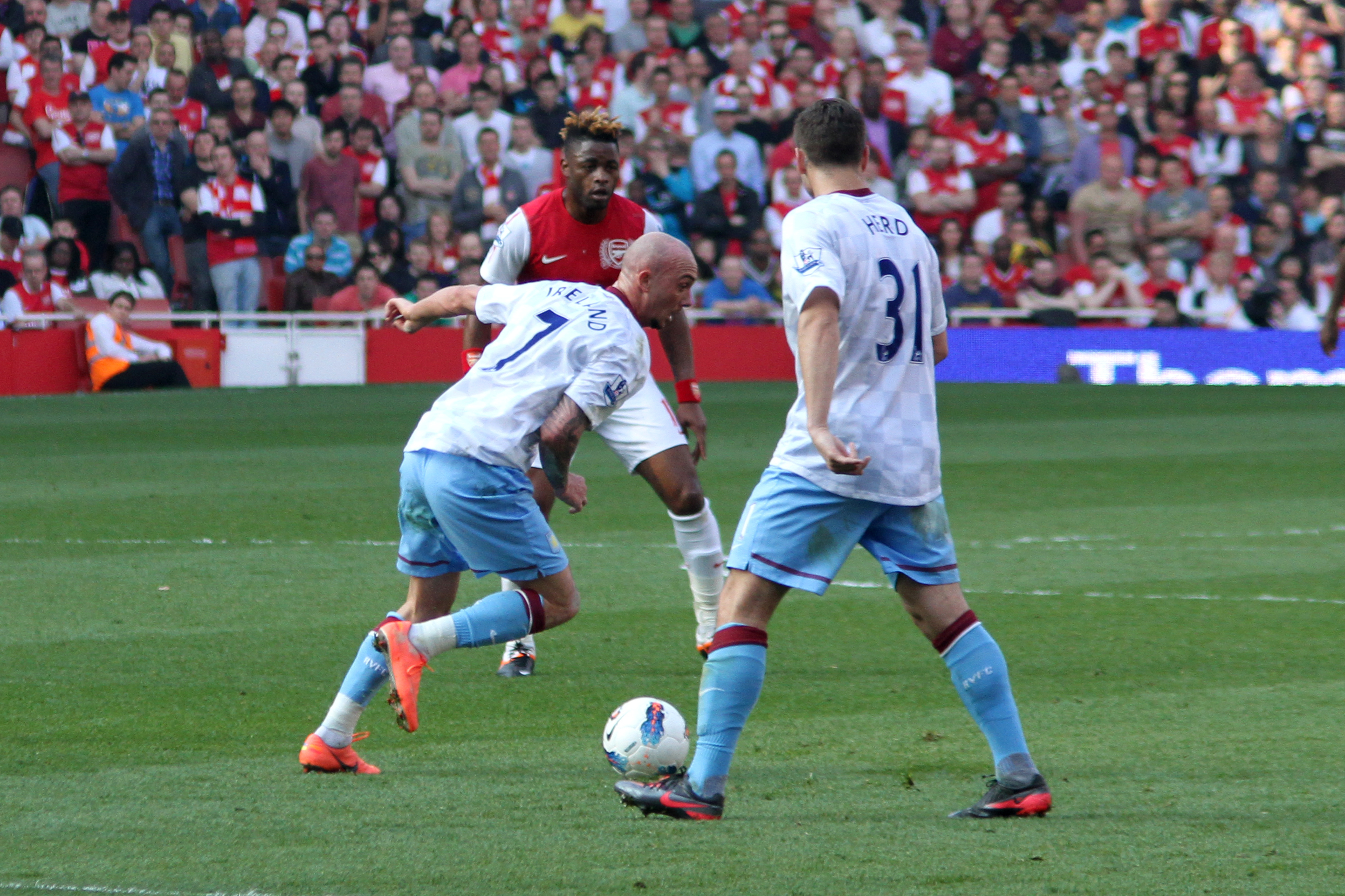 Stephen Ireland, Alex Song and Chris Herd